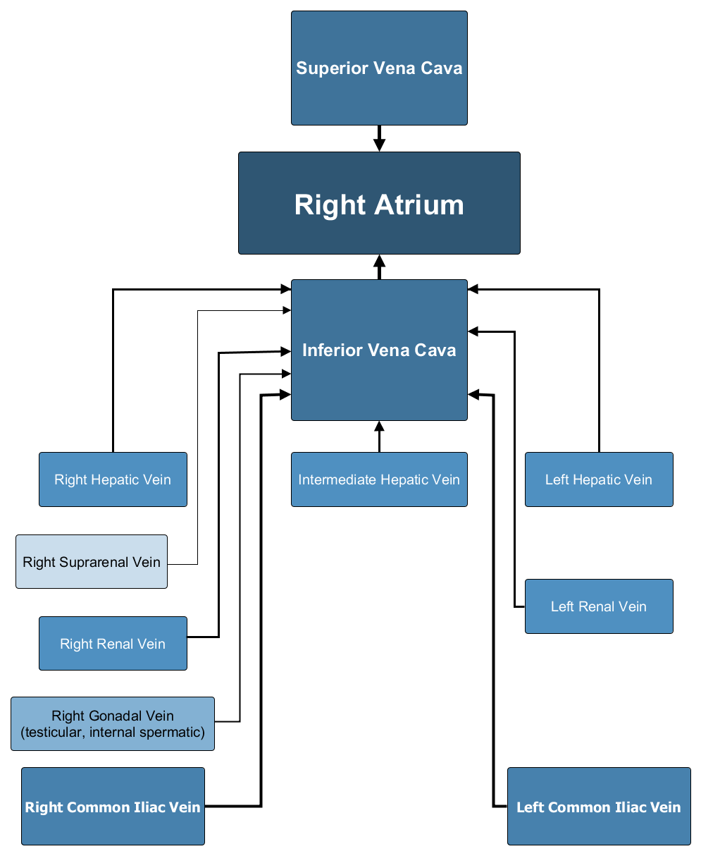 Contains some (but not all) major veins in the human body.